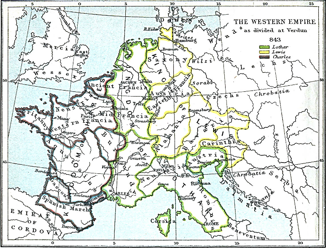 Location of Kursk sub shipwreck